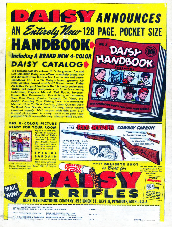 America's Best Comics #26, Page 52, May 1948